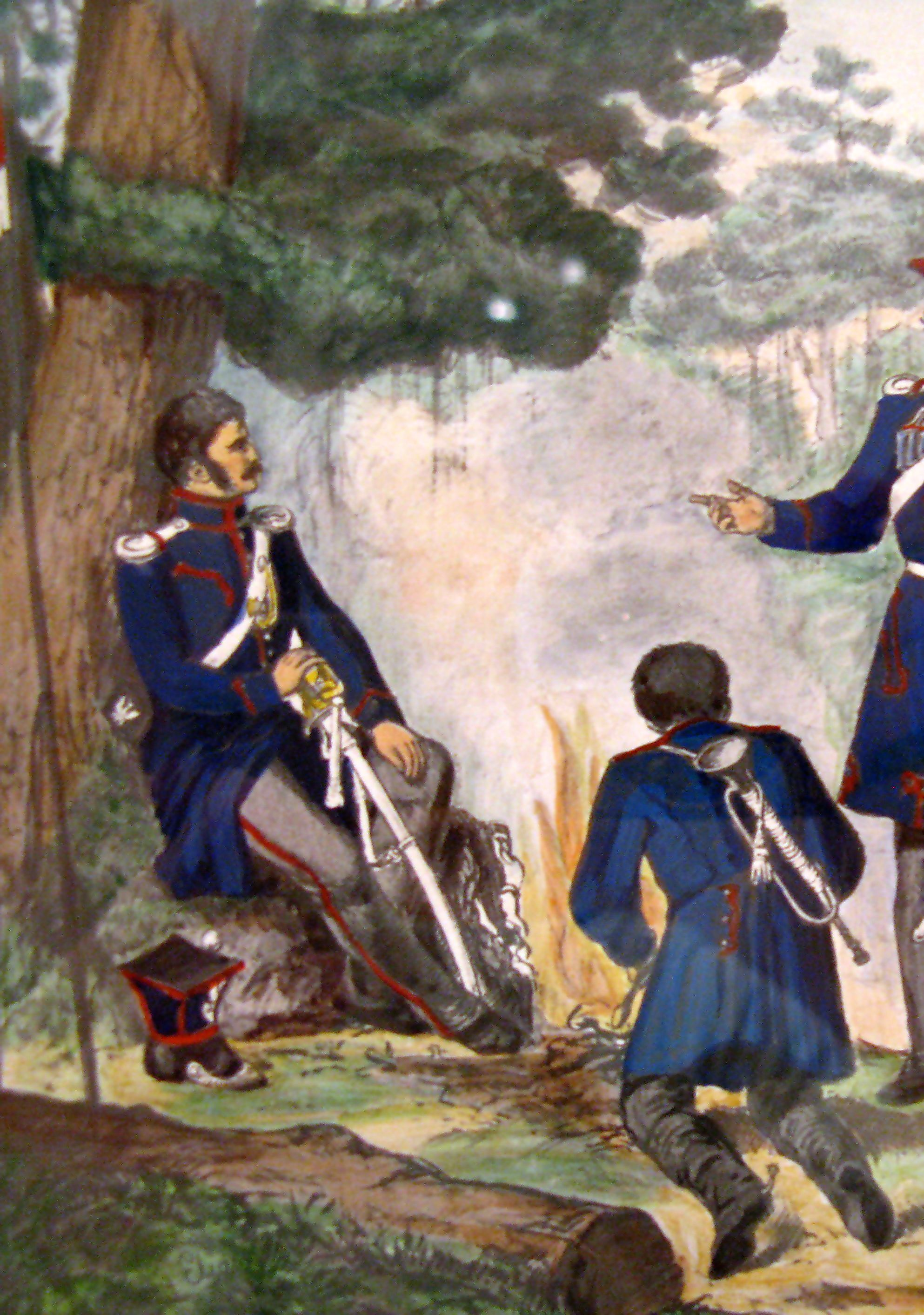 Płock Cavalry of Polish Army during November Uprising